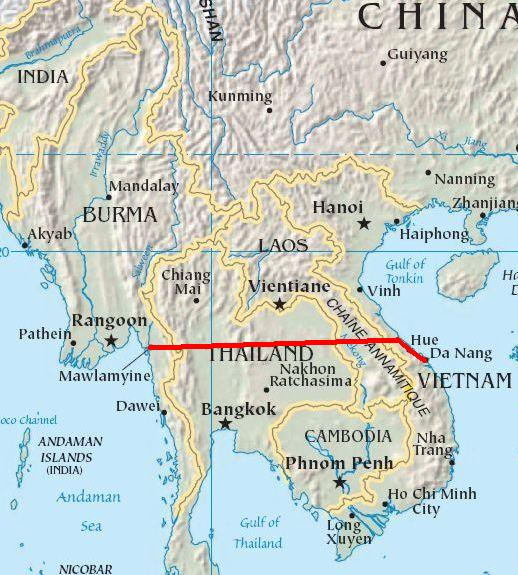 East-West Economic Corridor.